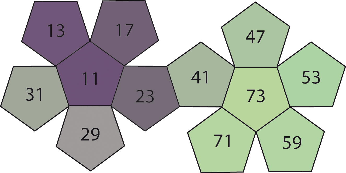 nontransitive prime-numbers-dodecahedron PD 3